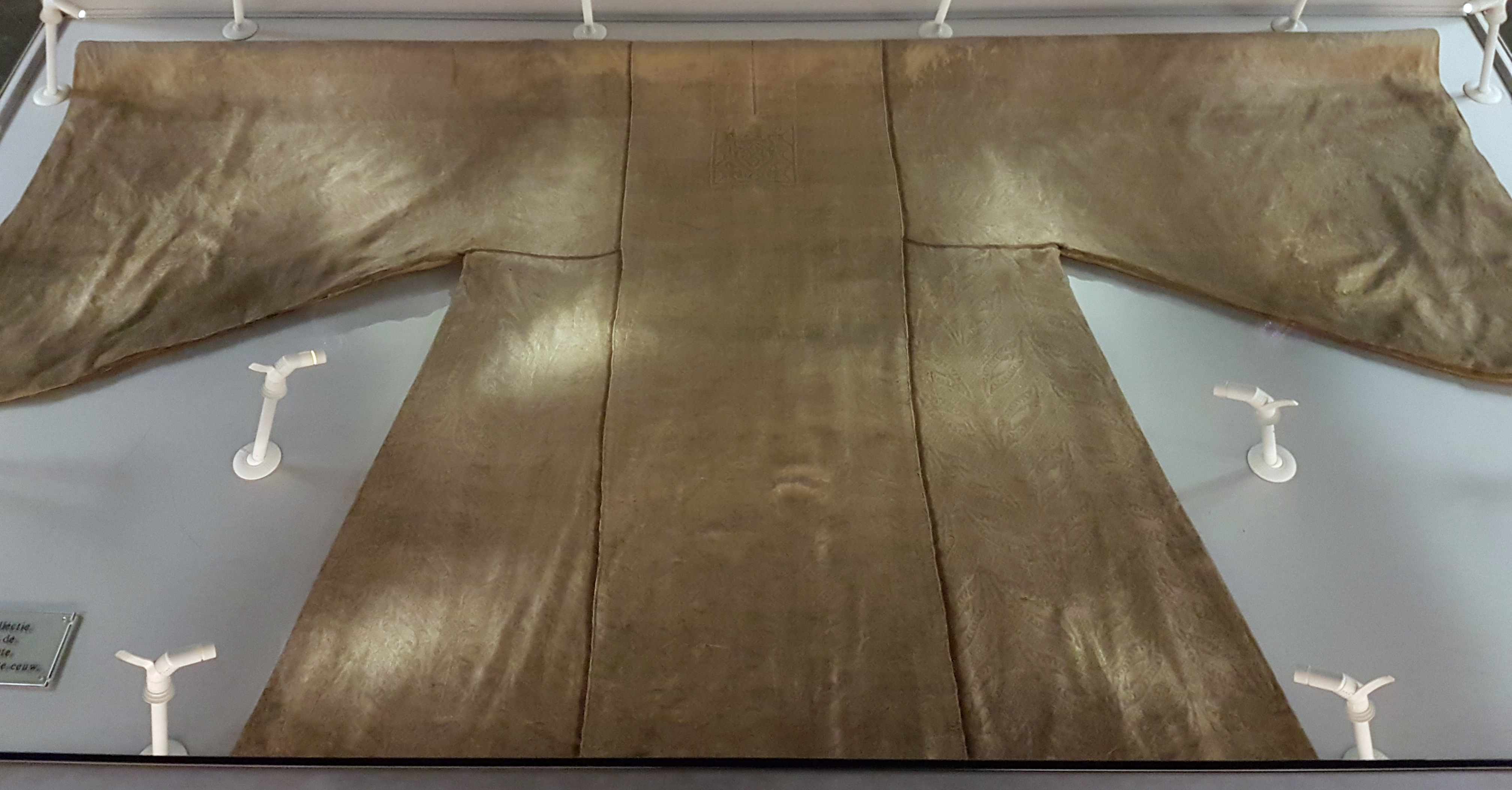 So-called robe of Saint Lambert in the textile collection of the Treasury of the Basilica of Our Lady in Maastricht, Netherlands. The fabric originates probably from Central Asia but the age has not yet been established (8th-13th c.).